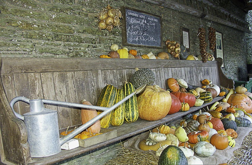 Melon Yard at Heligan Cornwall England